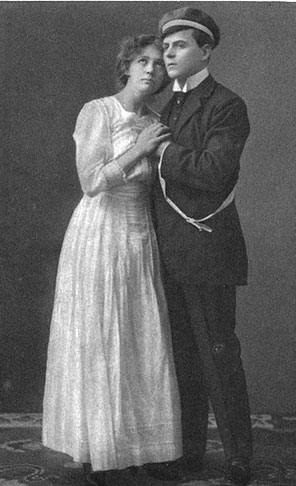 Greta Pfeil (1879-1967) and Sigurd Wallén (1884-1947) as Käthie and Karl-Hinke in the play Alt-Heidelberg by Wilhelm Meyer-Förster.